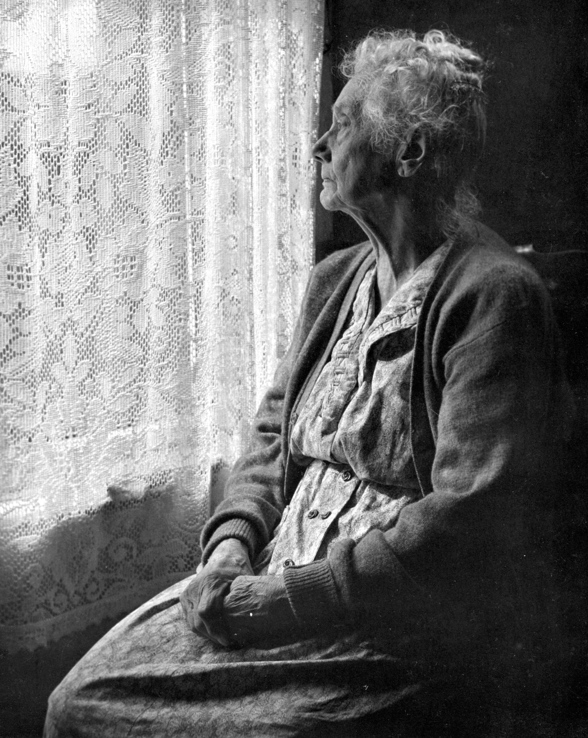 Portrait of old woman sitting by a window.